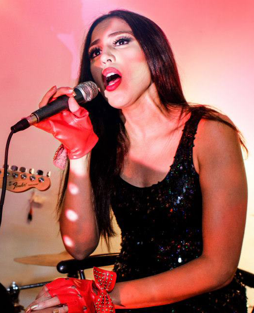 Kenia Arias performing live at LMNT in Miami, Florida.